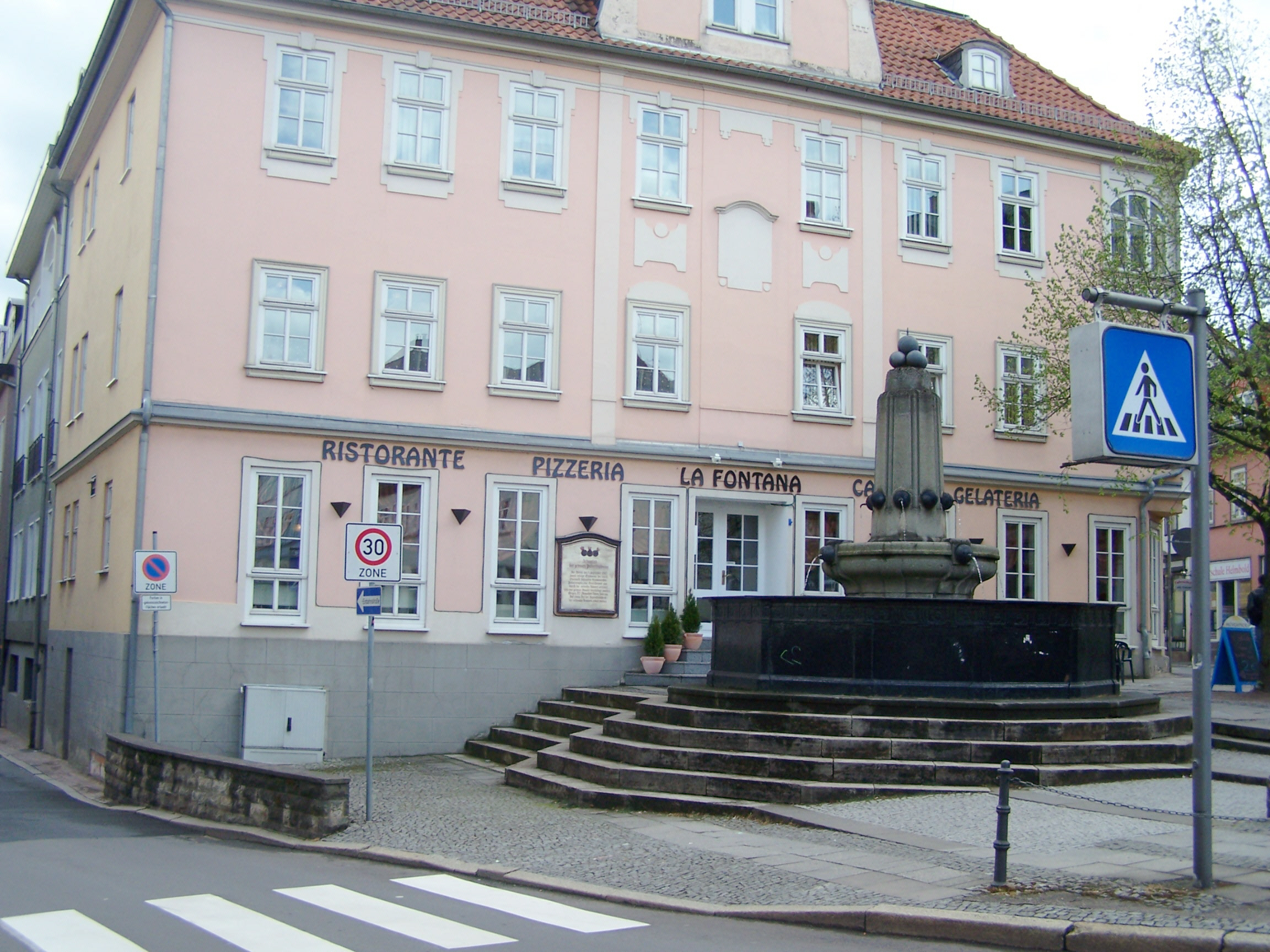 Eisenach, the Black Fountain memorial place for the victims of the gunpowder explosion in 1810, September 1st.